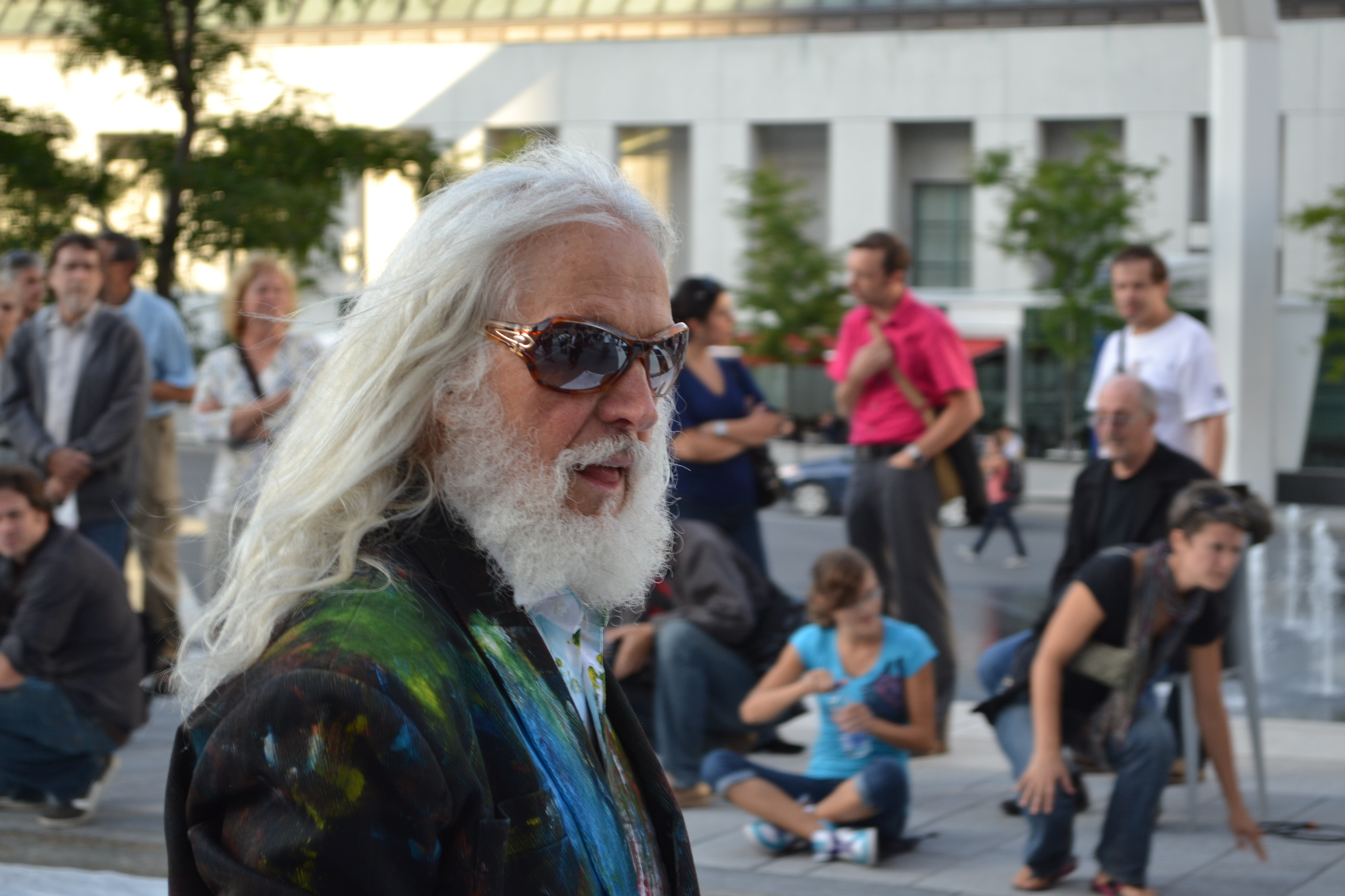 Public performance of Armand Vaillancourt en at their show "On n'a pas de printemps à perdre". Quartier des Spectacles of Montreal, at the corner of Balmoral and Mayor streets.